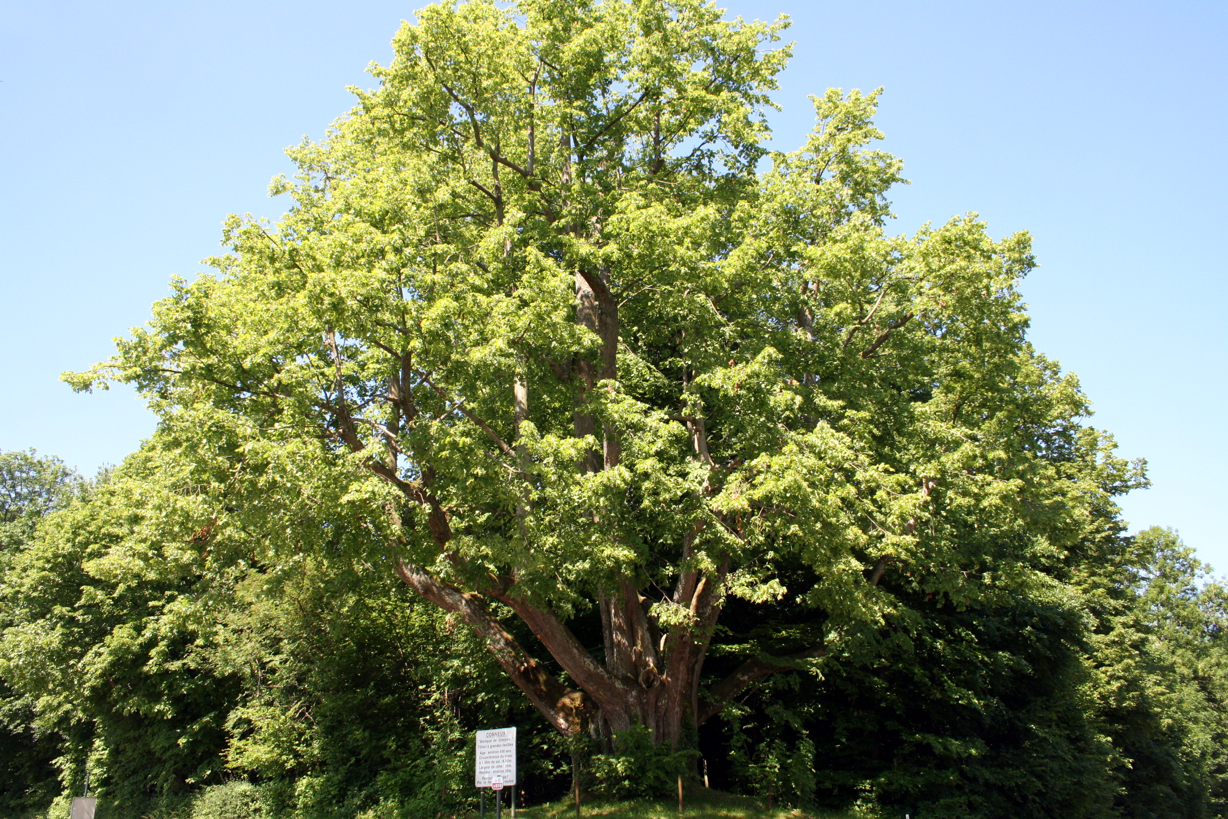 Large-leaved Linden.